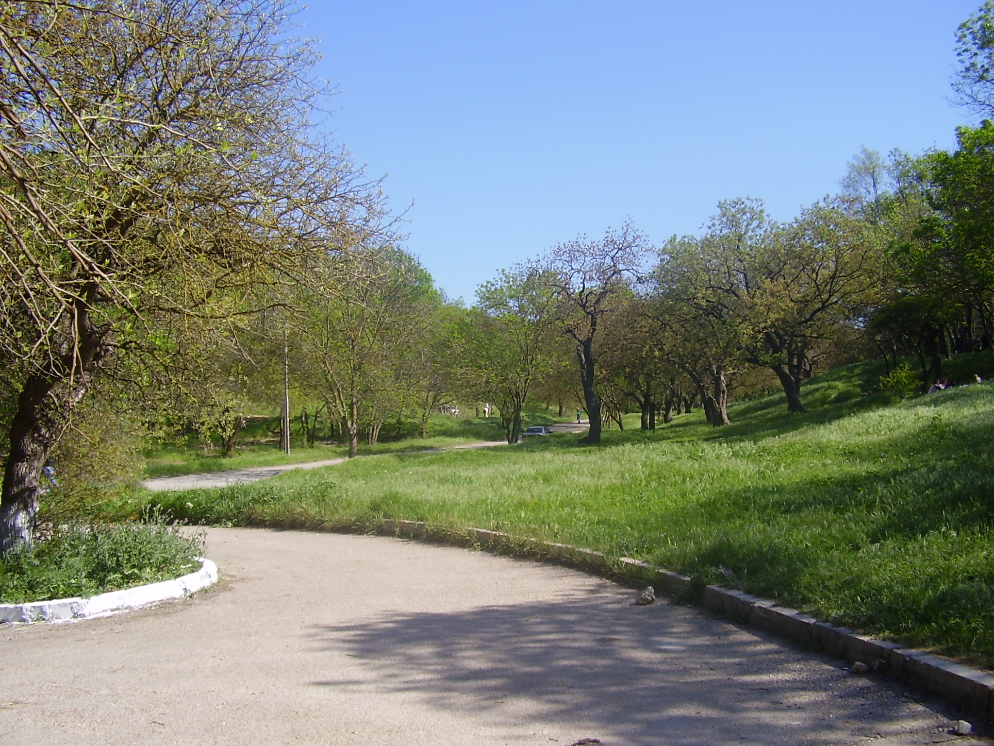 Botanical nature monument "Ushakov's Balka (Ushakov Gully)"